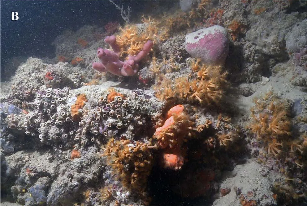 In situ images of the mesophotic coral reef, showing heavy siltation over the reef structure. (B) horizontally oriented